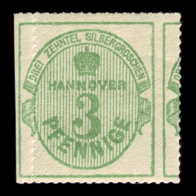 series of stamps of Hannover Graphics by Jürgens Ausgabepreis: 3 Pfennig / 3/10 Silbergroschen First Day of Issue / Erstausgabetag: 1864 Michel-Katalog-Nr: 21 (Altdeutschland (Hannover))